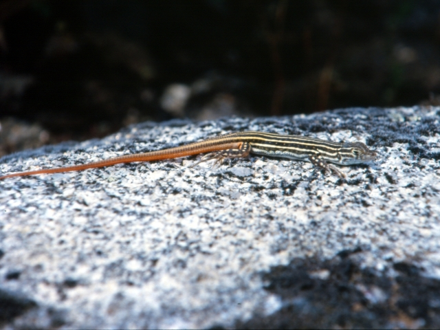 Acanthodactylus erythrurus